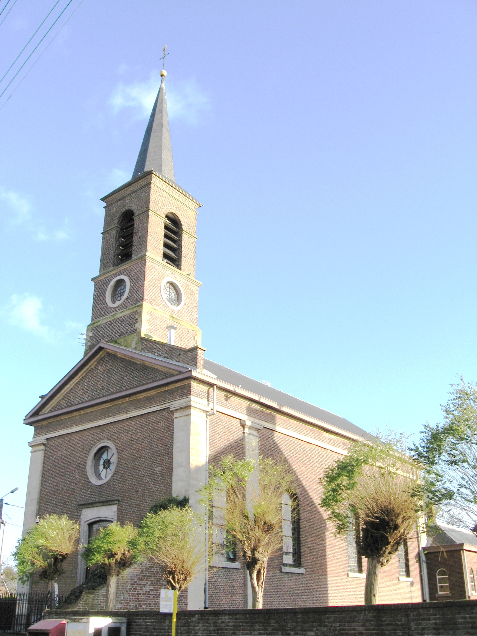 Church of Saint Michael in Veldwezelt (Kesselt), Lanaken, Limburg, Belgium